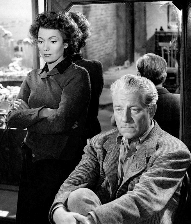 The Italian actress Isa Miranda (Ines Sanpietro) and the French actor Jean Gabin acting in the film The Walls of Malapaga (1949).